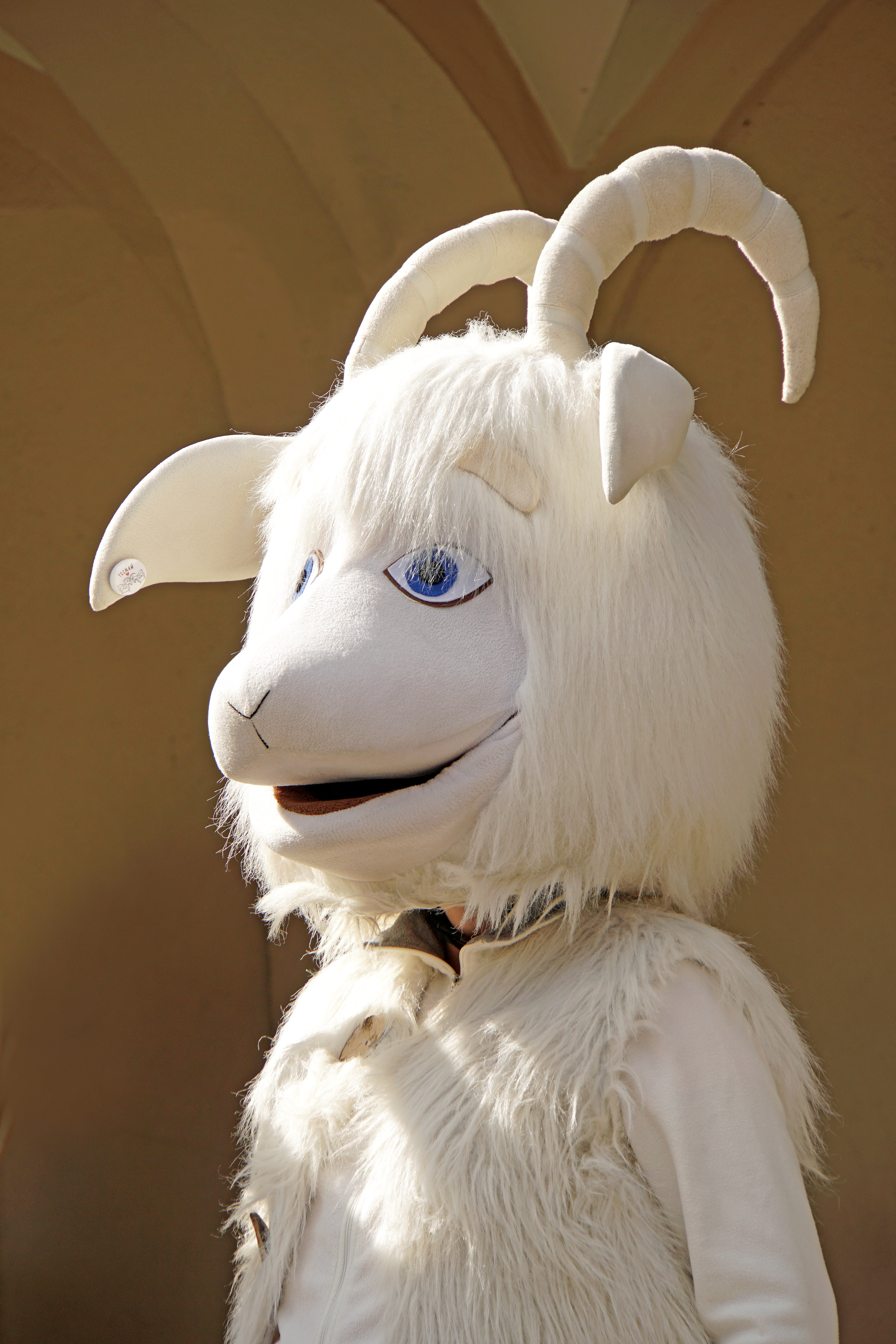 PLEASE, NO invitations or self promotions, THEY WILL BE DELETED. My photos are FREE to use, just give me credit and it would be nice if you let me know, thanks. A person in a goat costume at a store in the Old Market Square.